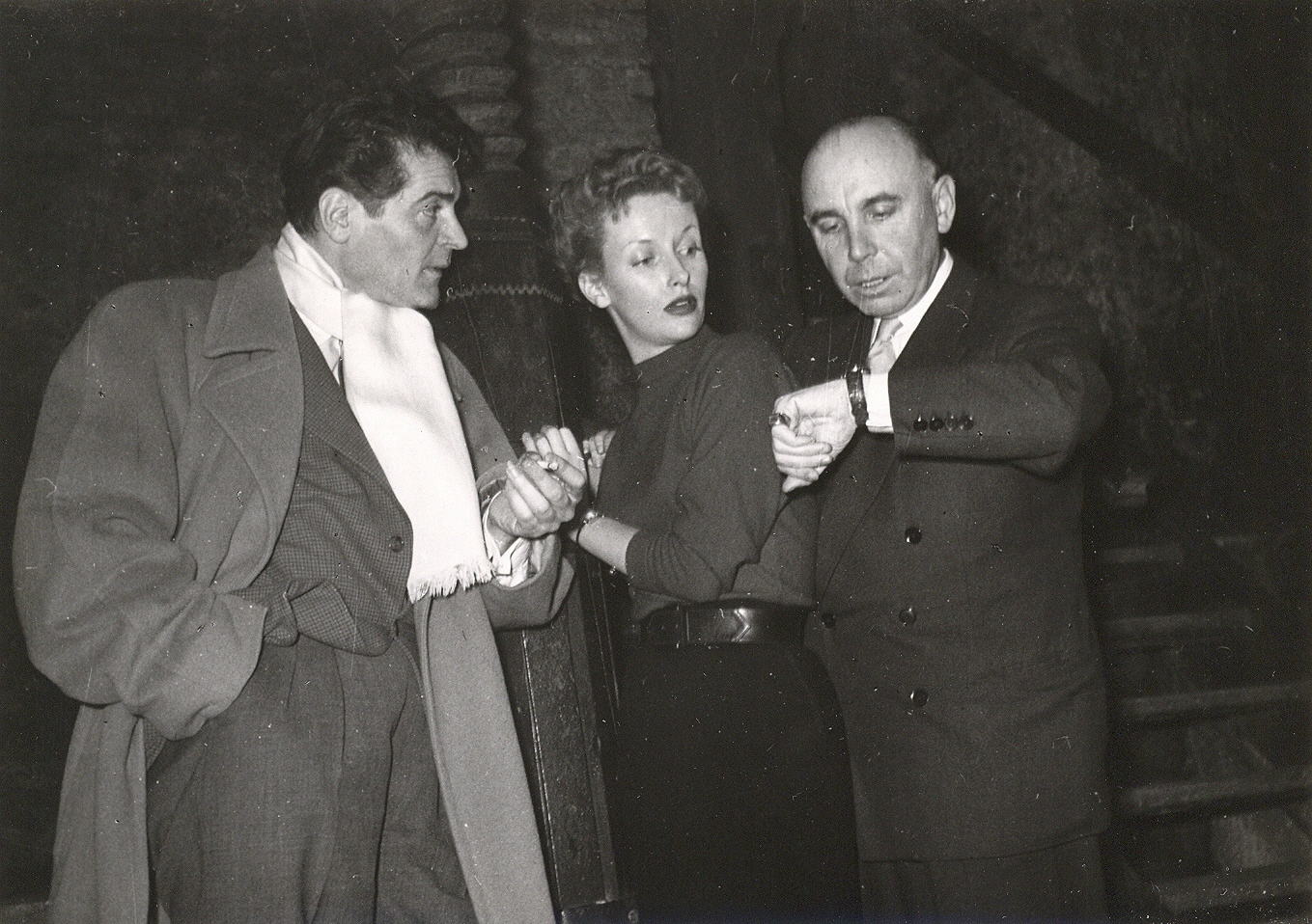 From right to left: Emil-Edwin Reinert, Joan Camden and Francis Lederer during production of "Stolen Identity", (Co producted with "Abenteuer in Wien"), Vienna, 1952. Autor unknown